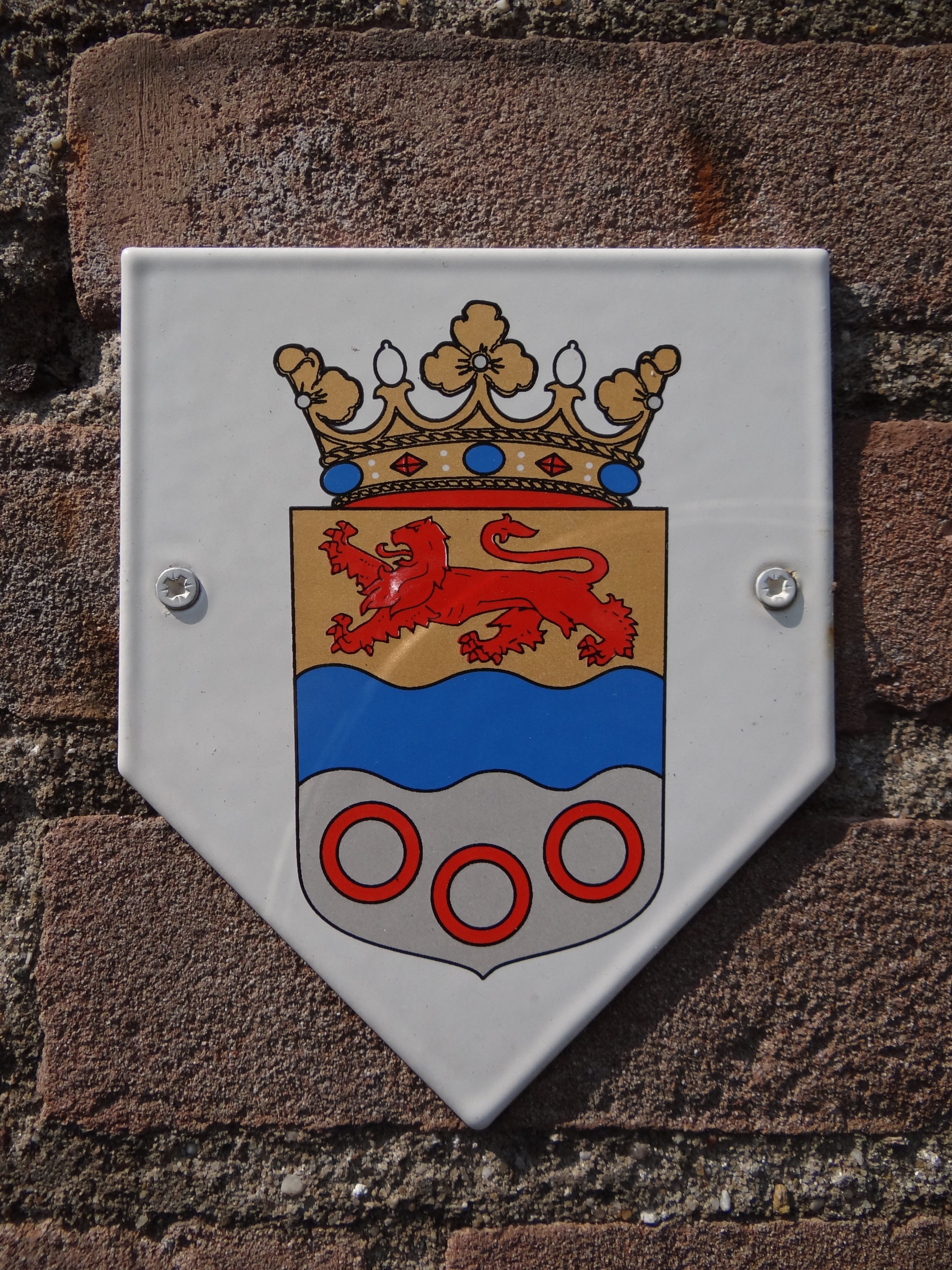 Gemeentelijk_monument_Oude_IJsselstreek